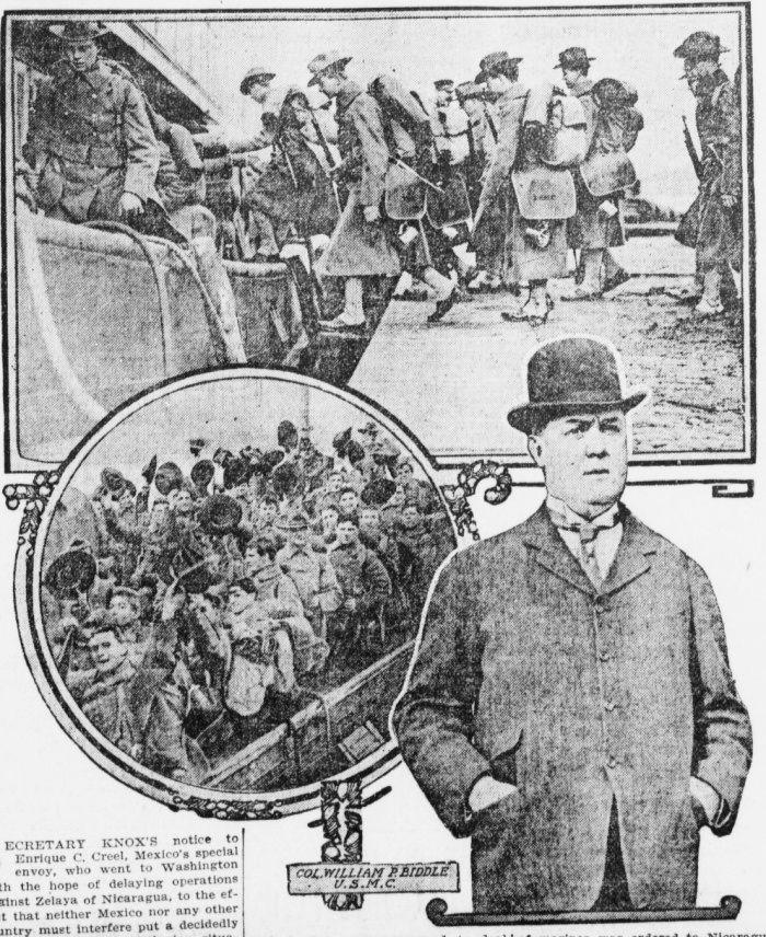 U.S. Marines boarding a tug in New York Harbor preparatory to sailing to Nicaragua in December 1909. At right is their commander, Colonel William P. Biddle.